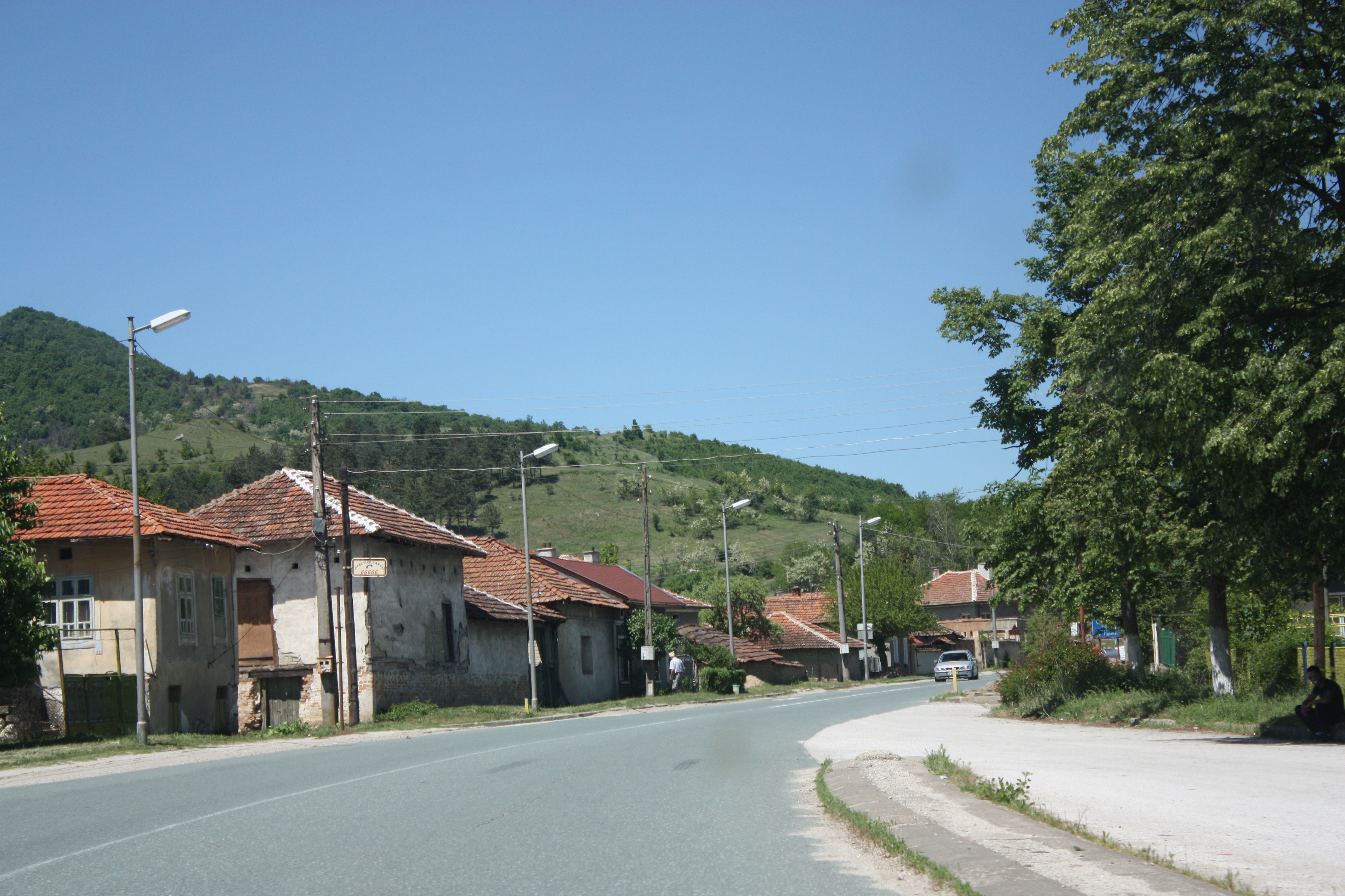 Main Street in Novachene, Pleven District, Bulgaria